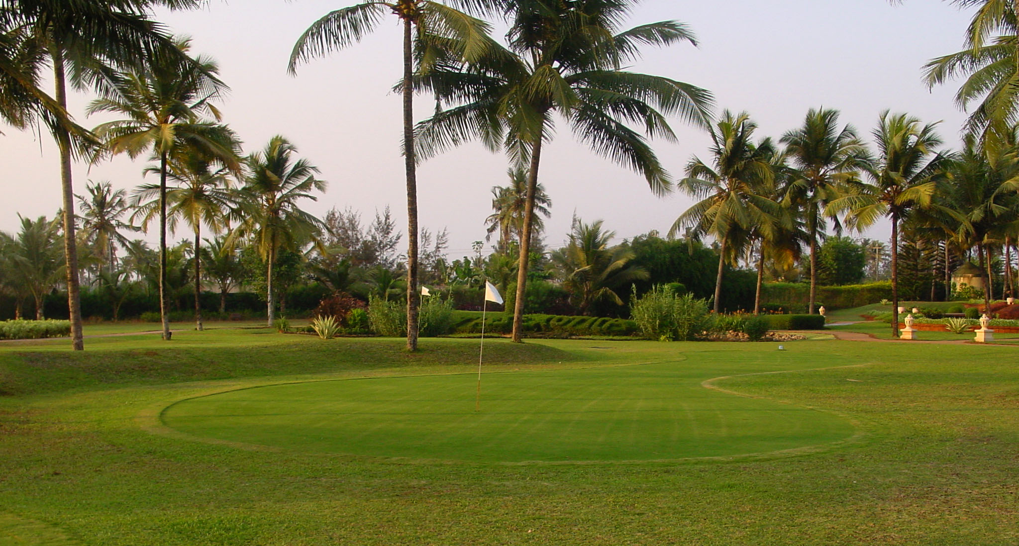 golfveld / golf course (Photo taken in Goa, India)